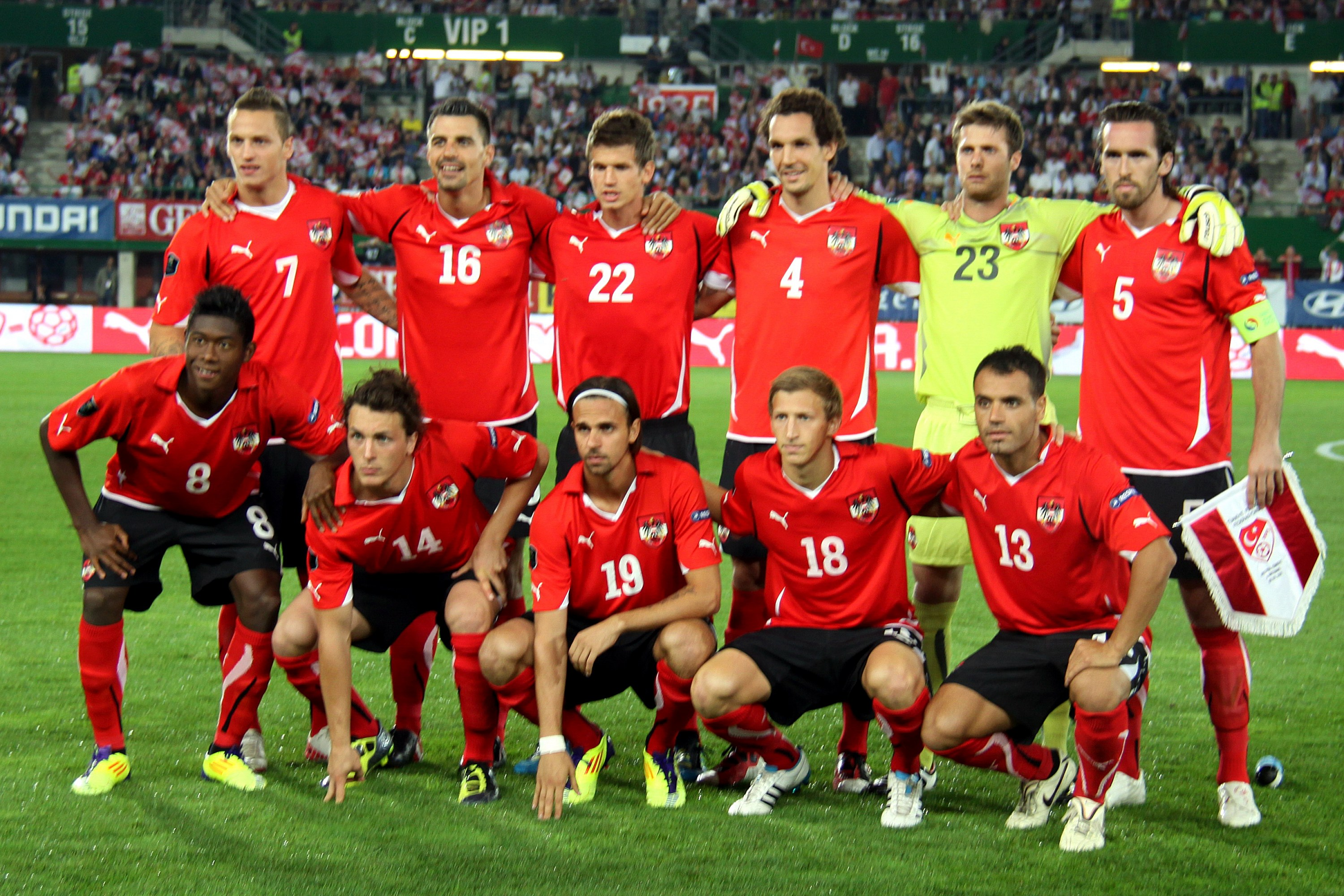 Austria national football team against Turkey national football team (0:0)